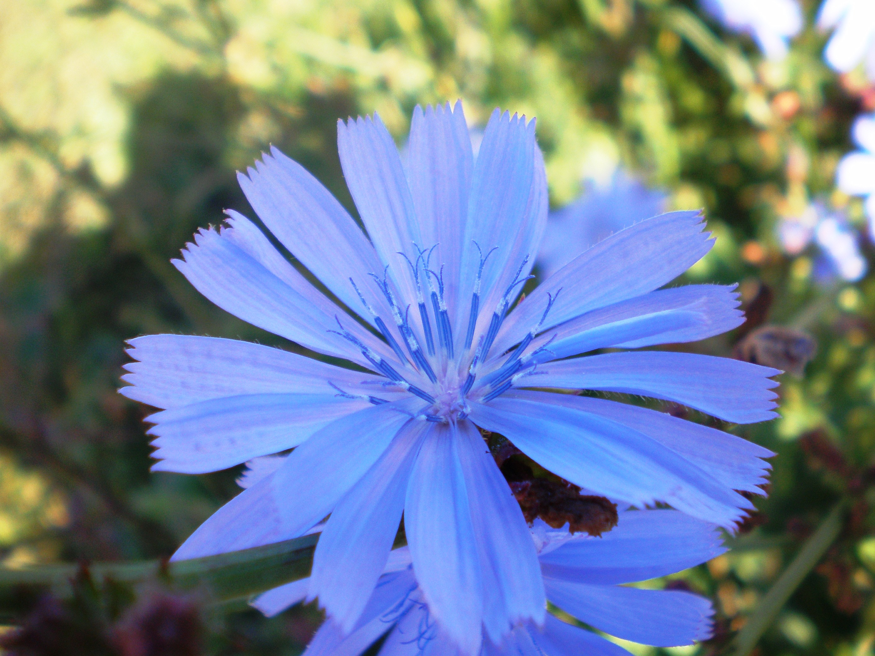 Cichorium intybus